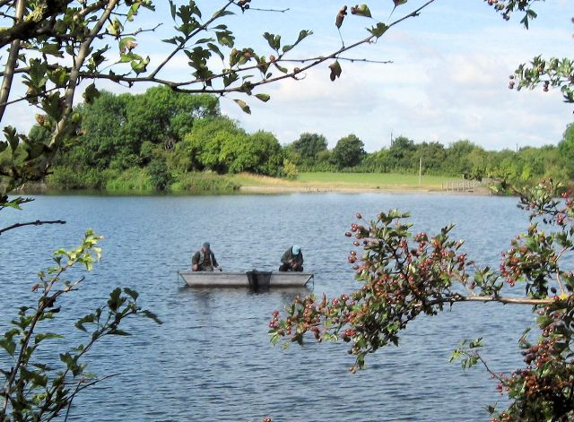 Trout Fishing from a boat on Tringford Reservoir, Tring. In the background you can see the woodland walk on the left and the earth dam and spillway on the right. See 1413823